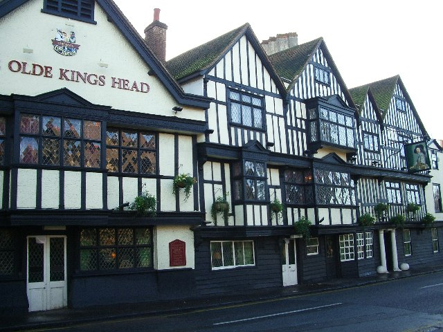 The Old King's Head, Chigwell. This wonderful old timbered coaching house stands in Chigwell village beside the London to Abridge road. It features in Charles Dickens novel Barnaby Rudge as The Maypole.